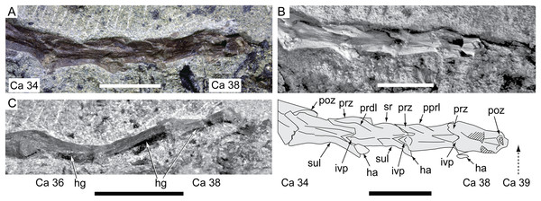 Figure 17: Diluvicursor pickeringi gen. et sp. nov. holotype (NMV P221080), posterior-most caudal vertebrae. A–B, Ca 34–38: (A) uncoated; and (B) NH4Cl coated with schematic, in left lateral view. (C) Ca 35–38 in ventral view. Abbreviations: Ca #, designated caudal vertebra and position; ha, haemal arch; hg, haemal groove; ivp, intervertebral processes; poz, postzygapophysis; pprl, postzygoprezygapophyseal lamina; prdl, prezygodiapophyseal lamina; prz, prezygapophysis; sr, spinal ridge; sp, spinal process; sul, sulcus on the lateroventral fossa. Scale bars equal 10 mm.